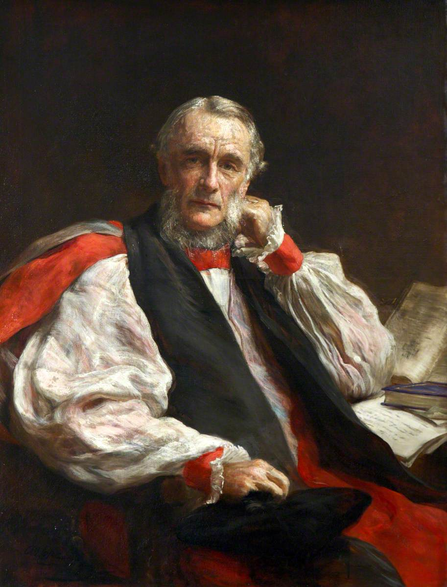 Portrait of Edward Henry Bickersteth (1825-1906), Bishop of Exeter